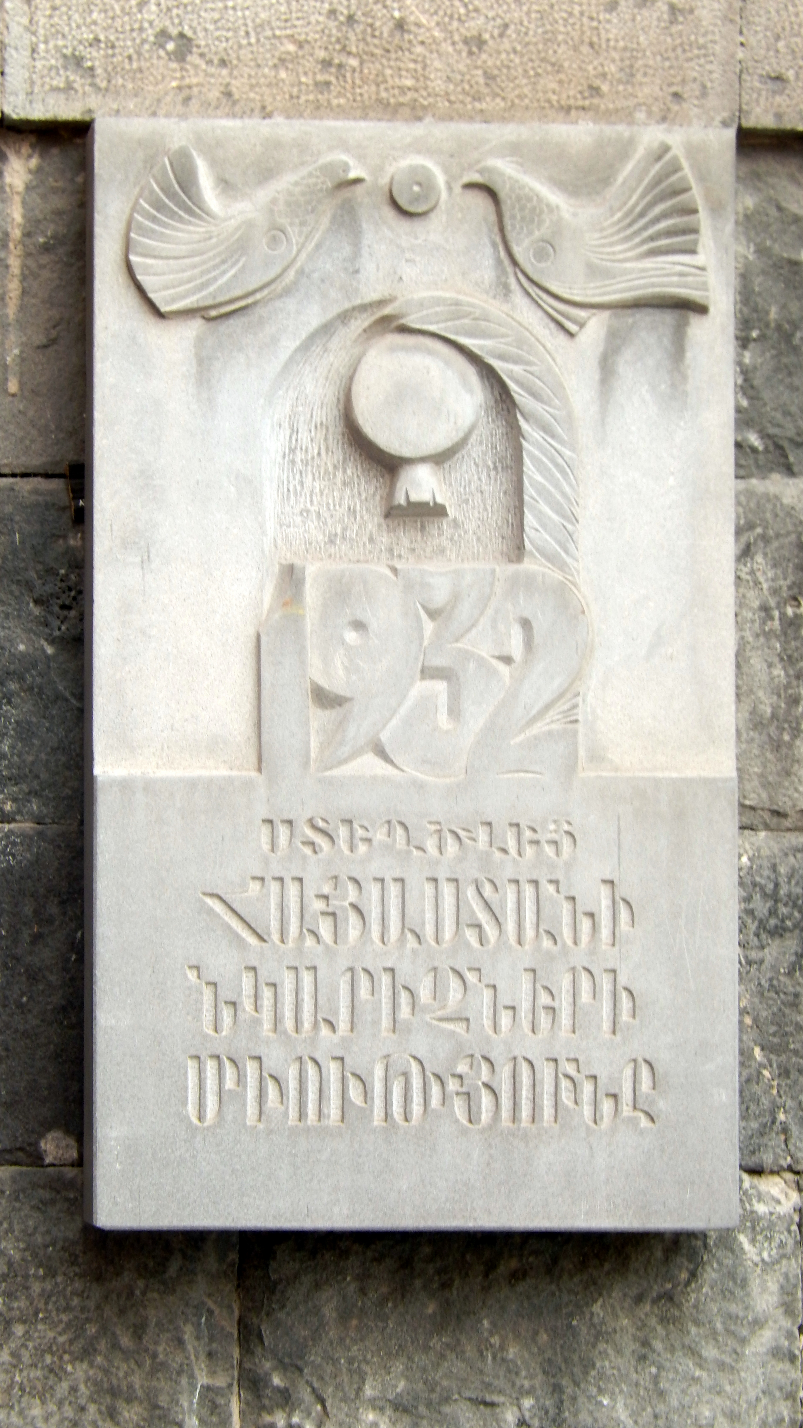 Armenian Artists Union, Plaque